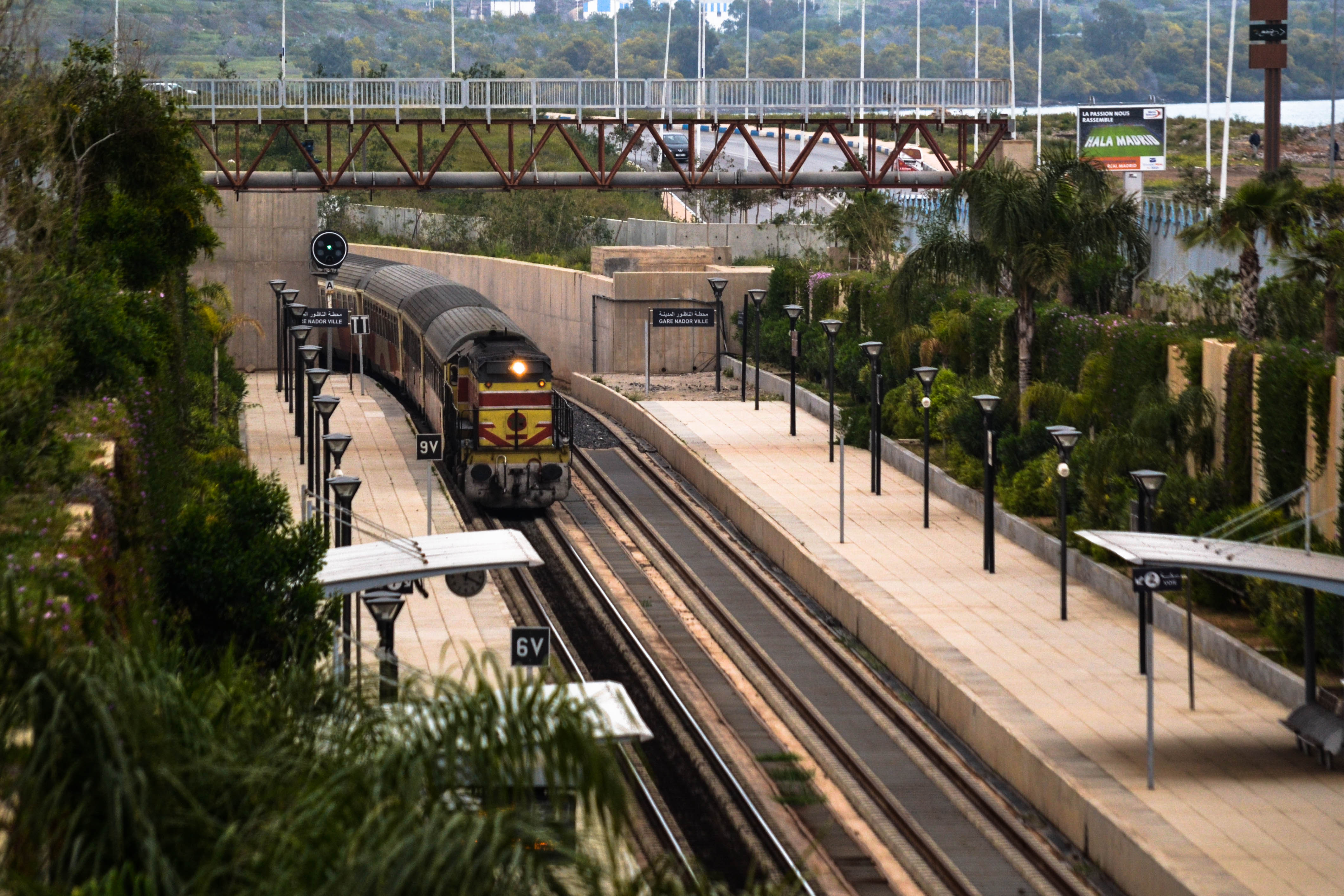 Train station Nador Morocco by Brahim FARAJI This is an image with the theme "Africa on the Move or Transport" from: Morocco